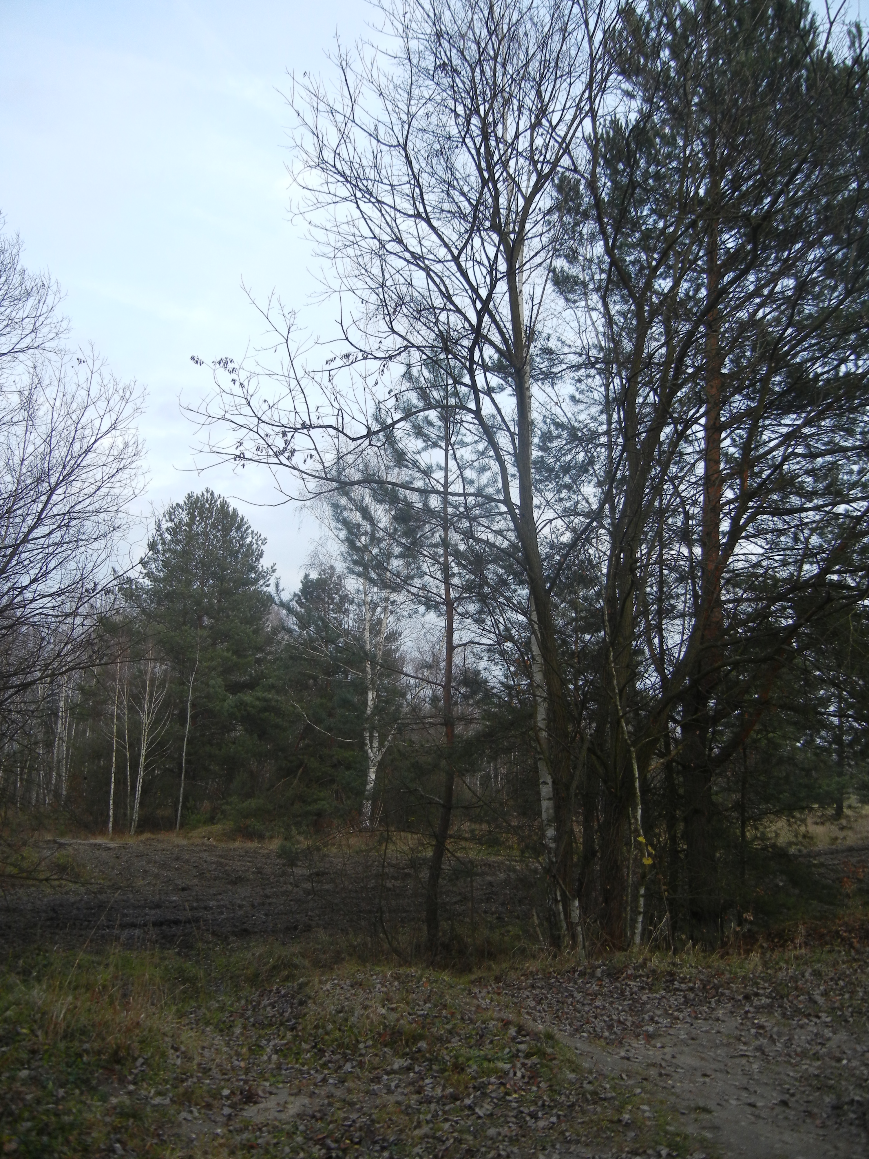 Natural monument Na Plachtě 3 in Hradec Králové District, Czech Republic